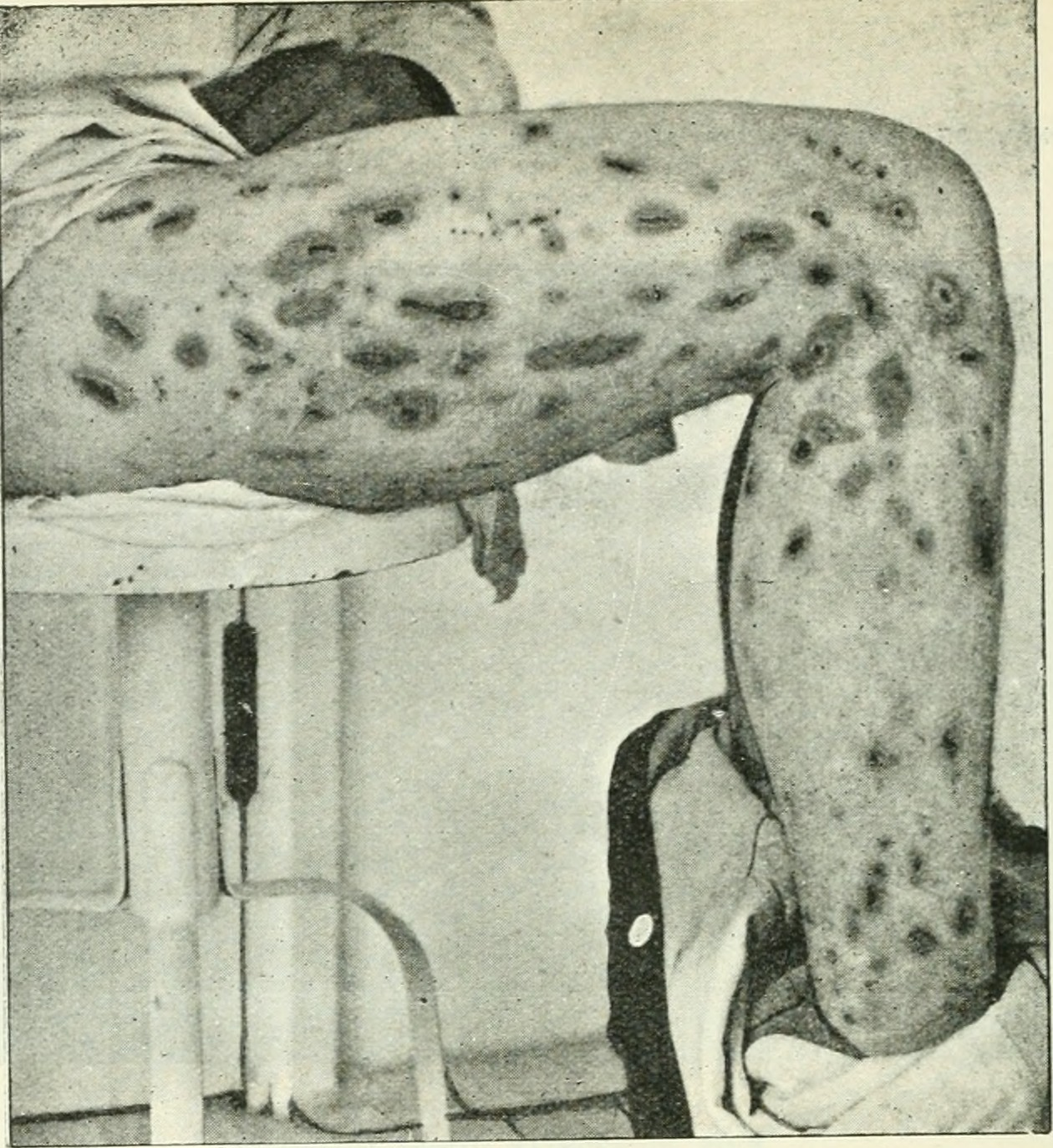 Title: The British journal of dermatology Year: 1888 (1880s) Authors: British Association of Dermatology Subjects: Dermatology Syphilis Publisher: London H.K. Lewis (etc.) Text Appearing Before Image: Fig. 10.—Linear impetigo—late siage. TO ILLUSTRATE MAJOR HtNRY MacCORMACS ARTICLE ON SKIN-DISEASES AND THEIR TREATMENT UNDER WAR CONDITIONS. VOL. XXIX. ^ British Journal of Dermatology and Syphilis/I Vol. XXIX, Nos. 7-9. Text Appearing After Image: Fitj. 11.—Linear iiii^ieligo—late stage.